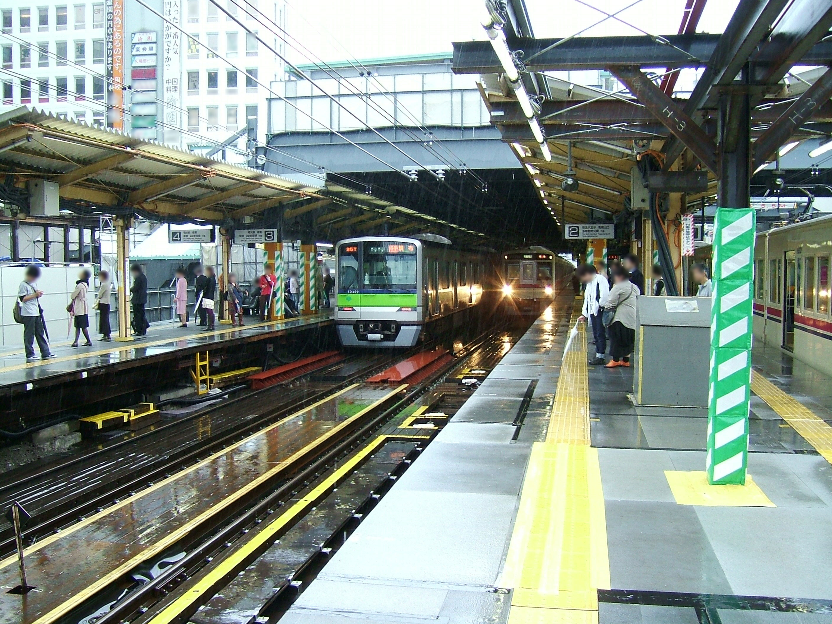 Chōfu Station platform (Keiō Line, Sagamihara Line)